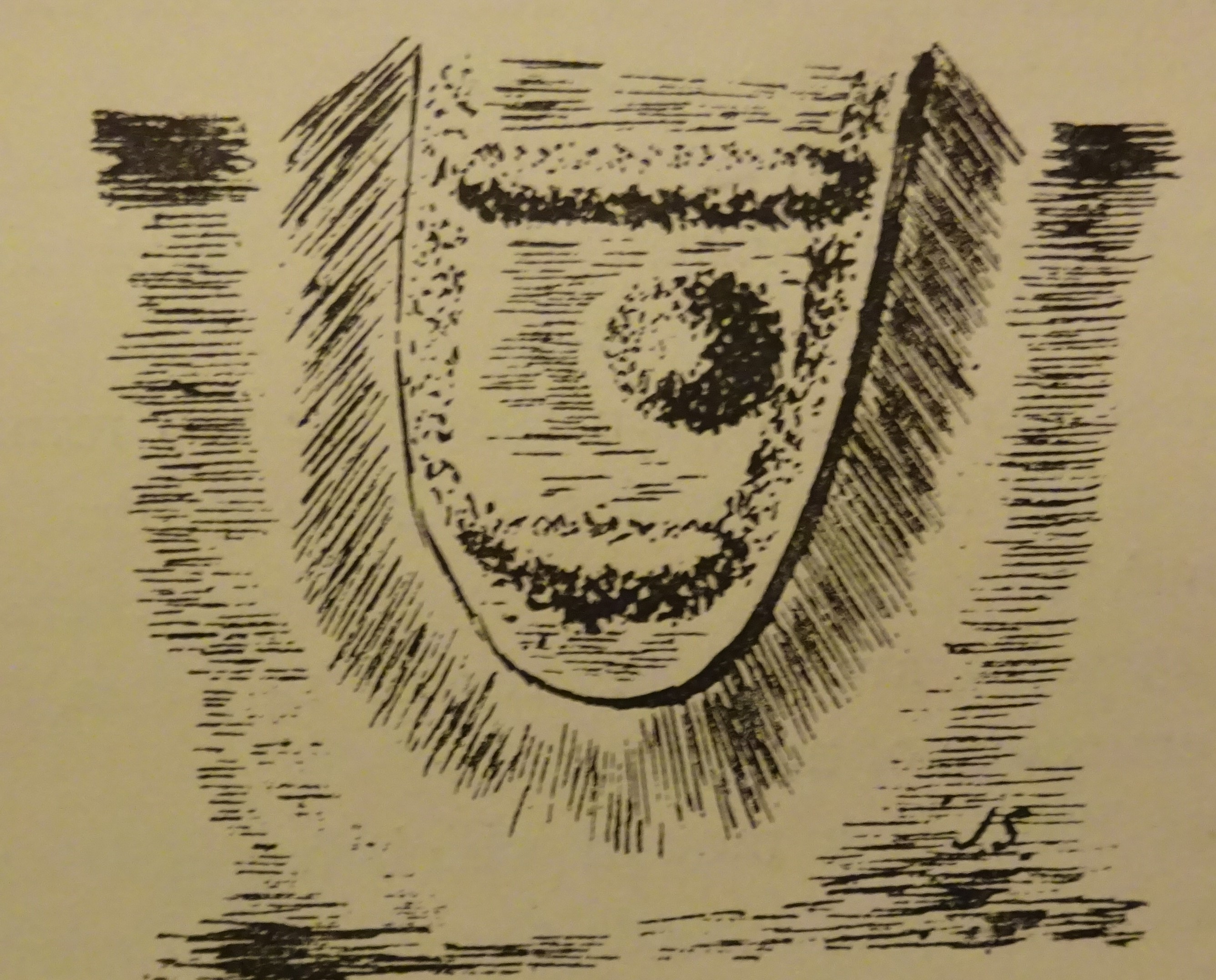 Kemp Law Dun, Dundonald Woods, South Ayrshire, Scotland. An Iron Age vitrified fort.